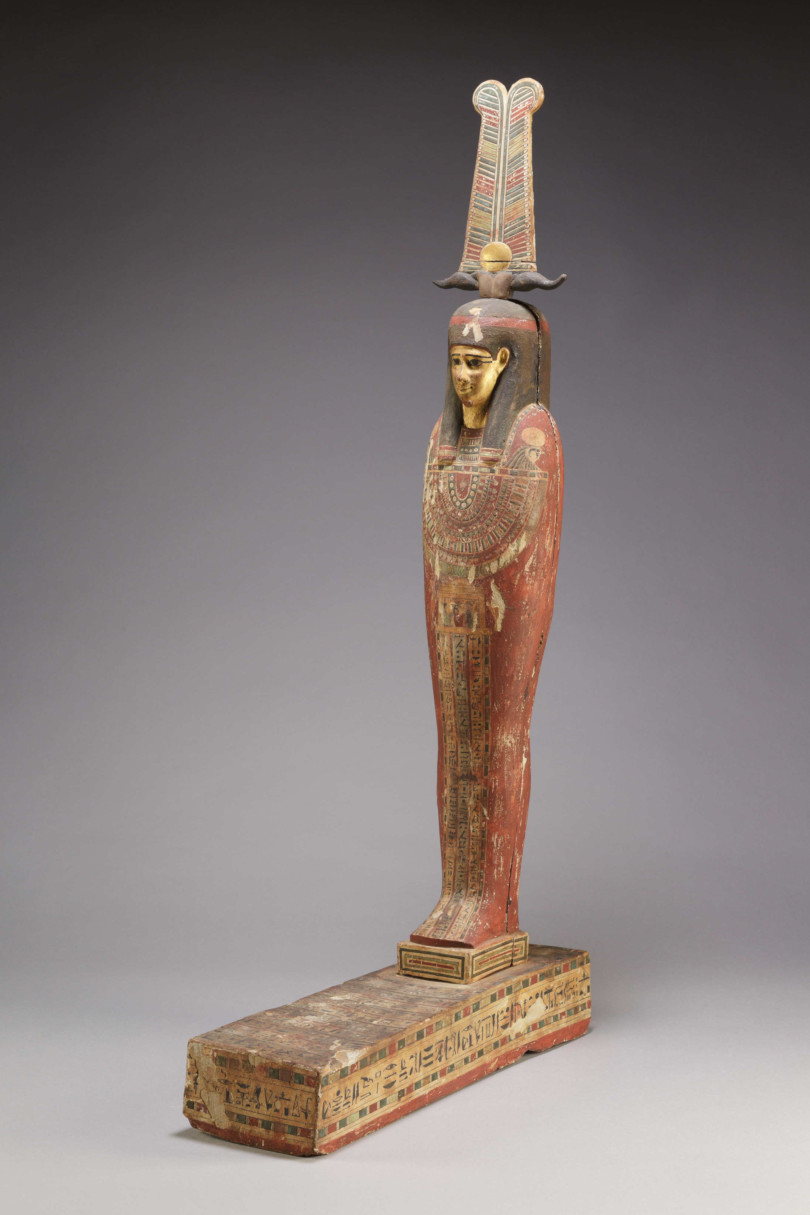 Funerary Figure, Ptah-Sokar-Osiris